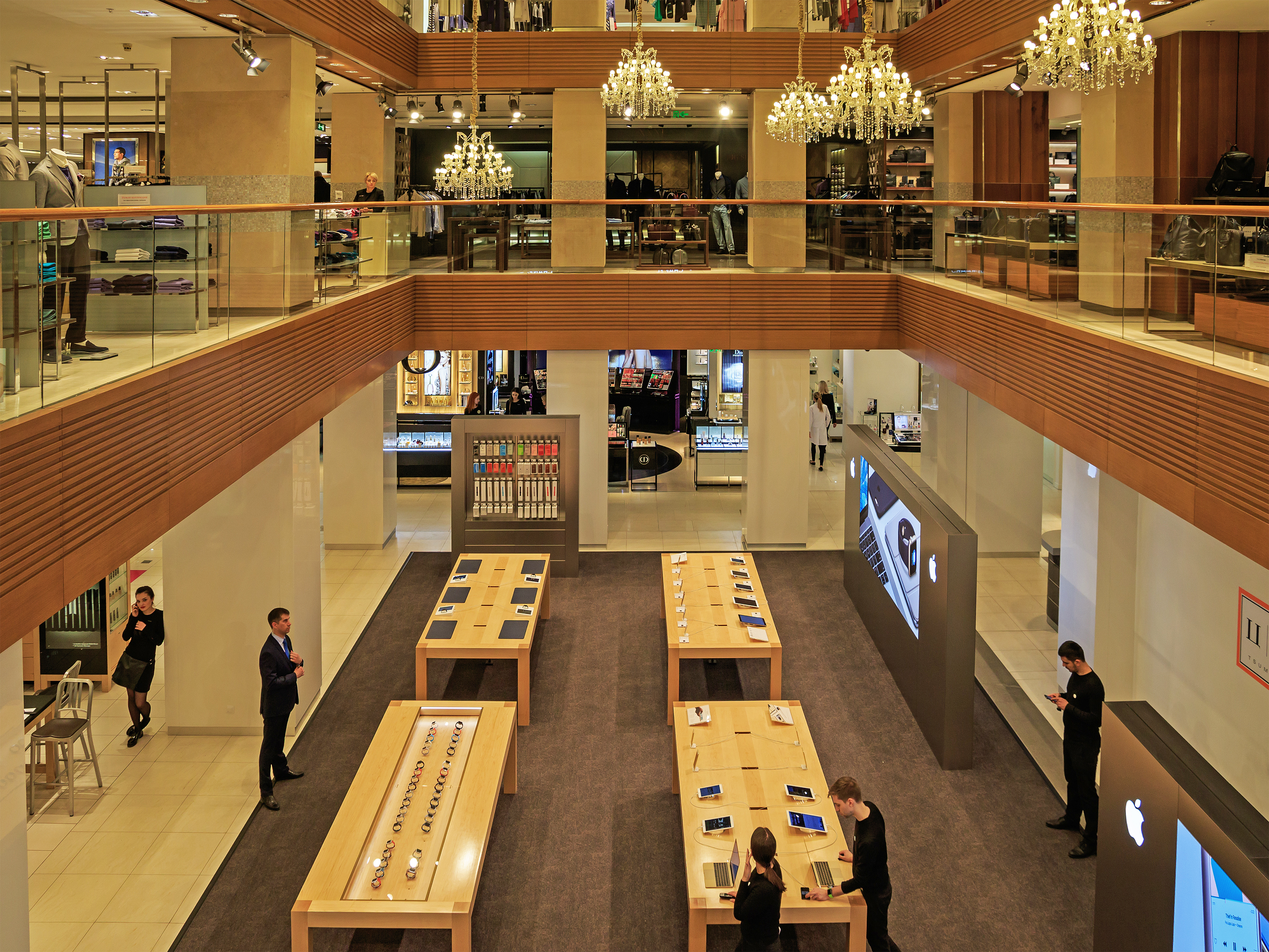 Apple Store inside TSUM department store in Moscow